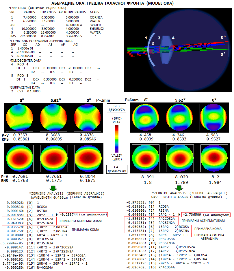 АБЕРАЦИЈЕ ОКА НА ПРИМЕРУ ОПТИЧКОГ МОДЕЛА